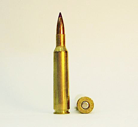 6mm Remington